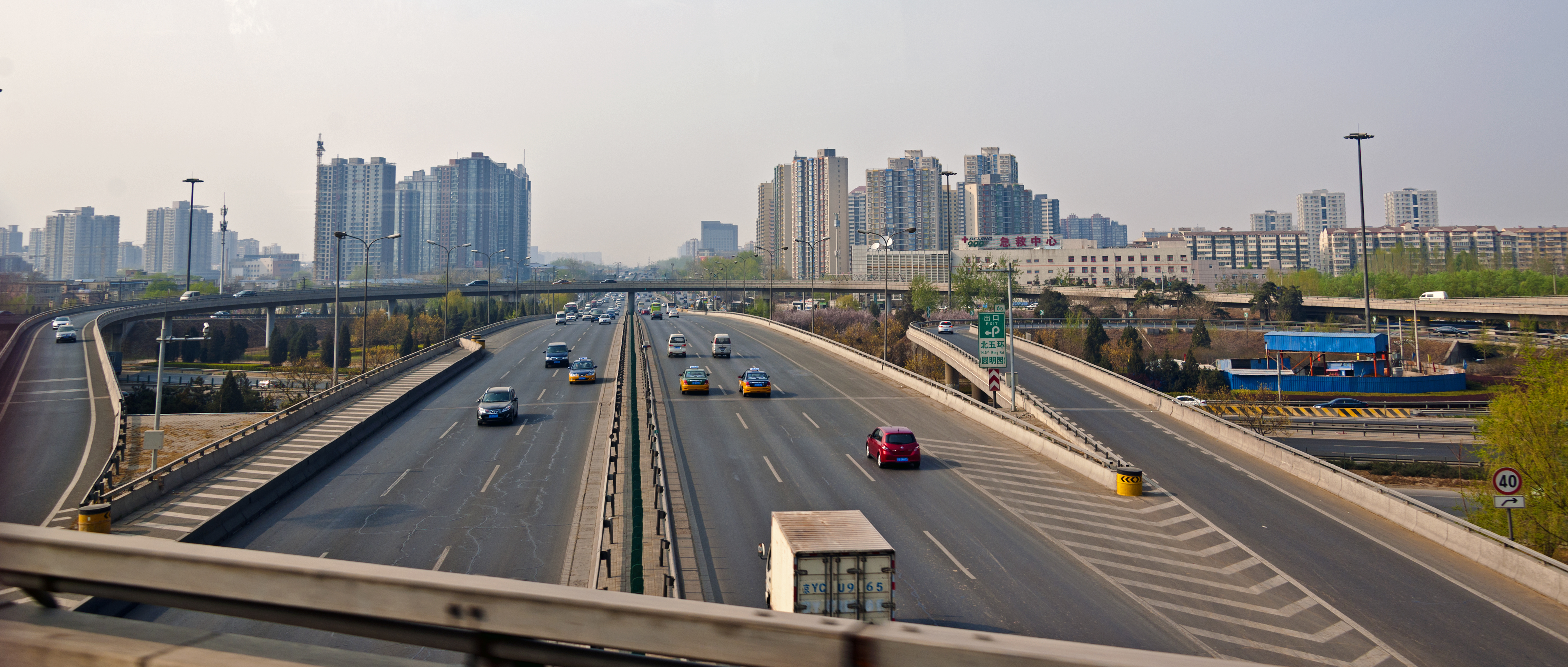 View up adaling Expressway portion of G6 from interchange with North 5th Ring Road, Beijing.